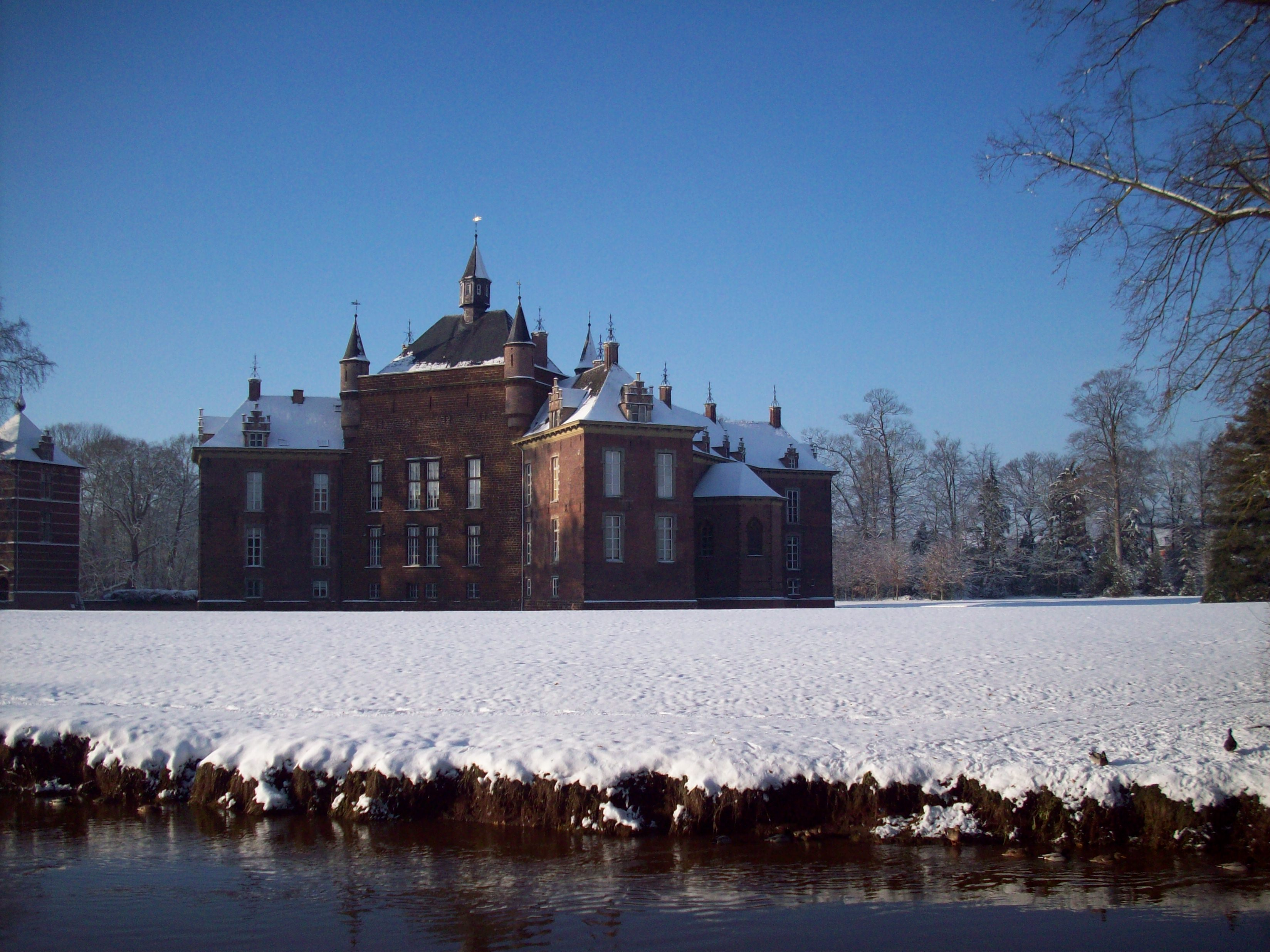 Kasteel de Merode in Westerlo gezien vanuit zuidoostelijke richting (grondgebied Herselt). Winter 2008